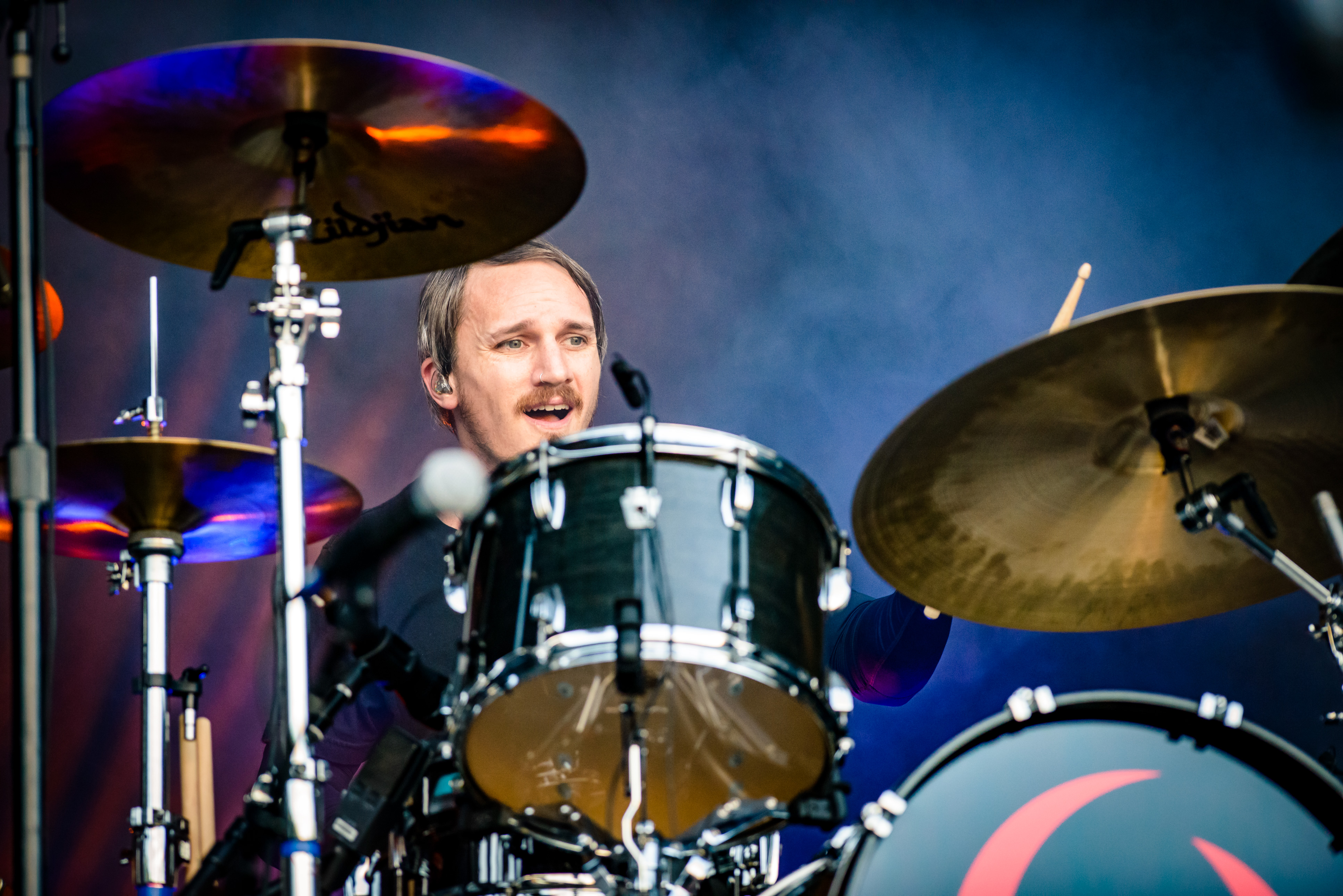 A Perfect Circle's Jeff Friedl in concert, Paris 2018